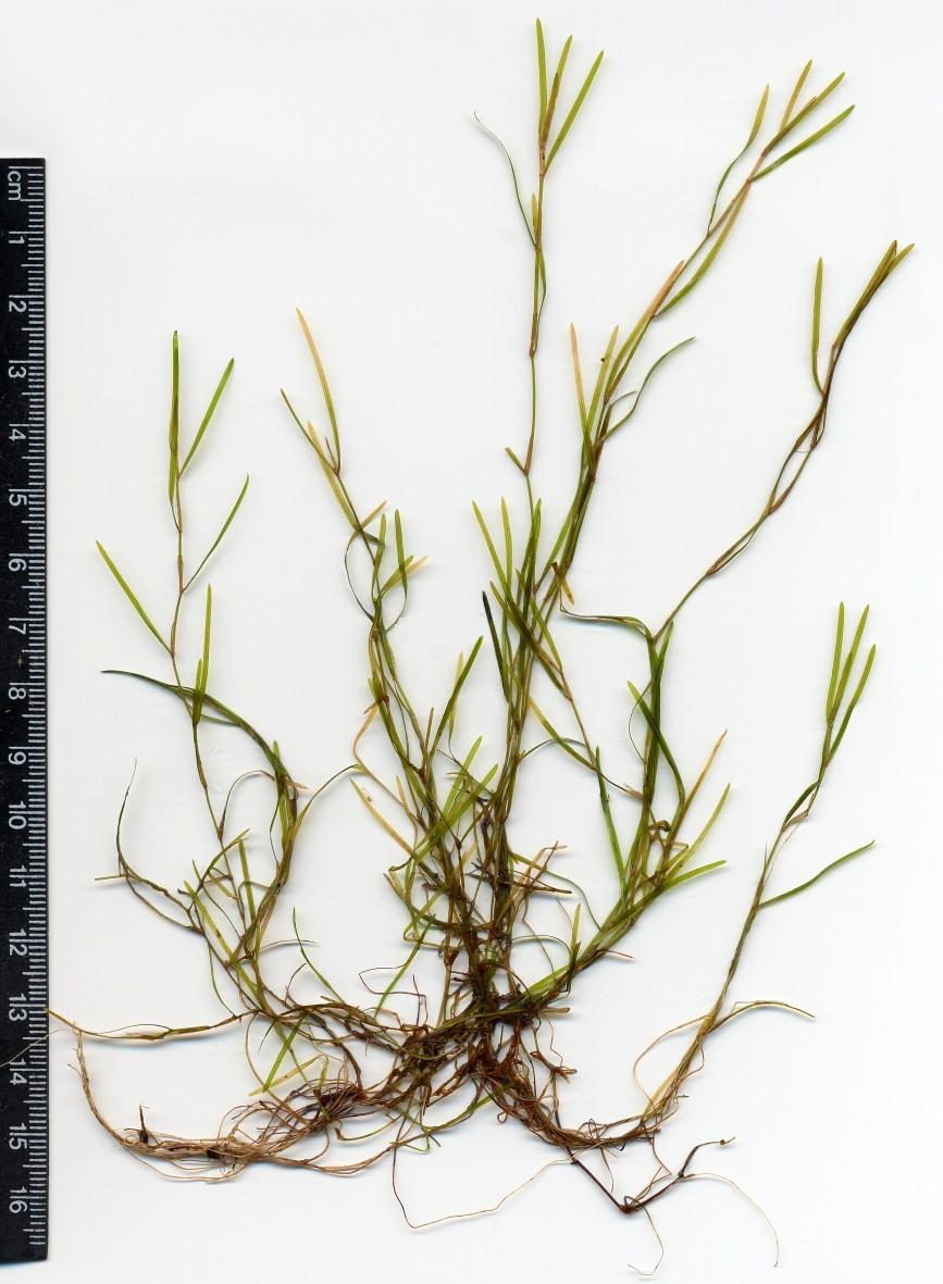 The pondweed Potamogeton pusillus s. str.